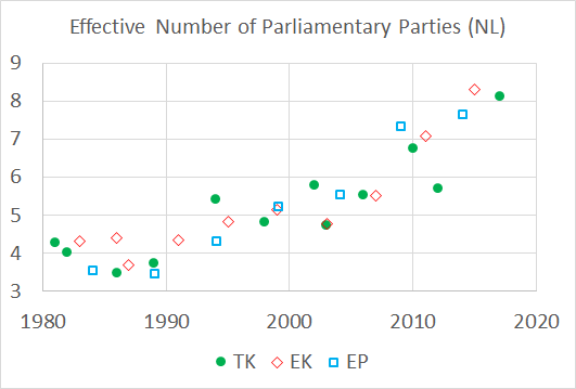 Figure of the effective number of parliamentary parties in the Netherlands, in the Dutch parliament (both chambers : "TK" = Tweede Kamer = lower chamber & "EK" = Eerste kamer = upper chamber) and in the European Parliament ("EP")